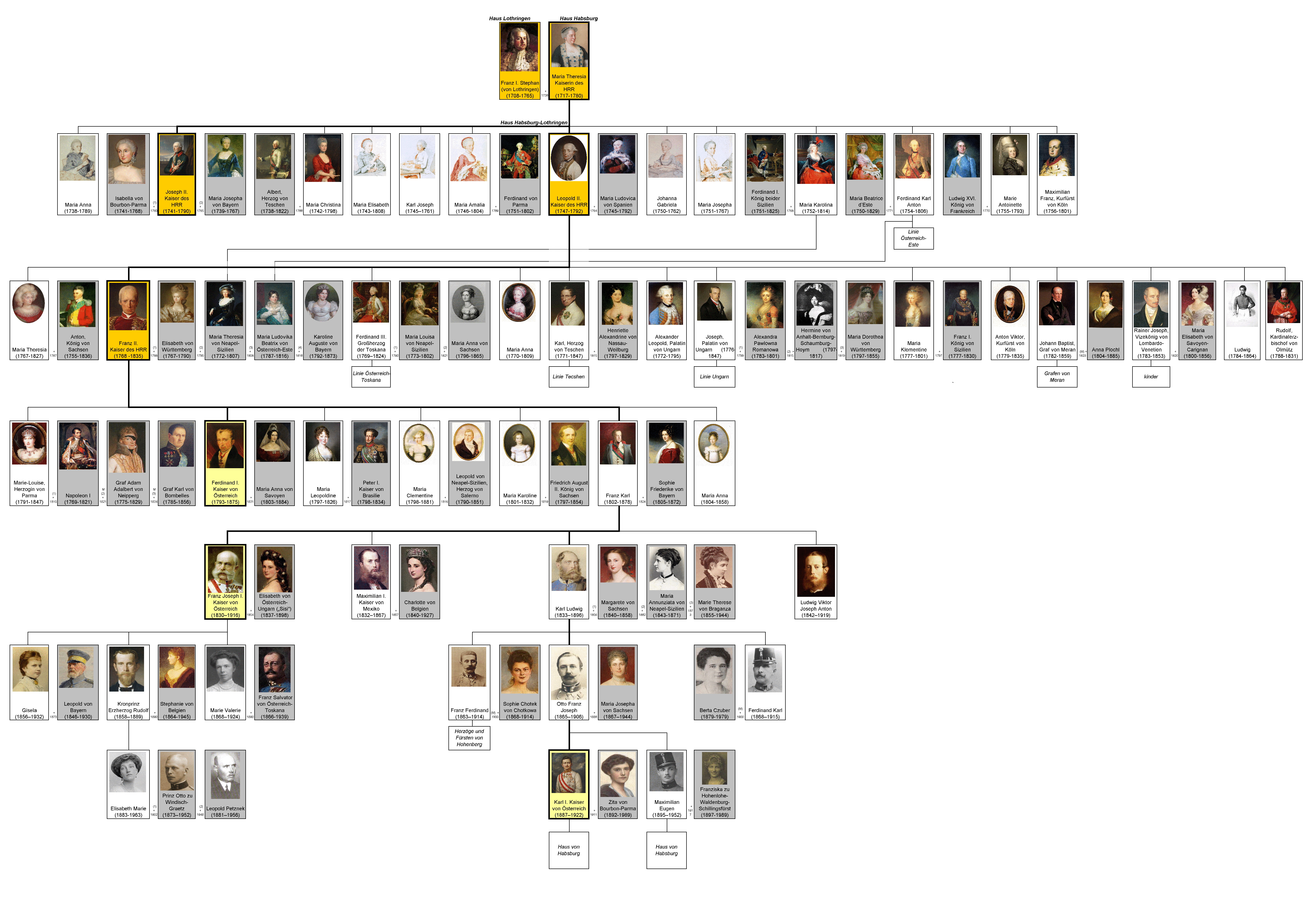 Family tree of the Habsbourgs